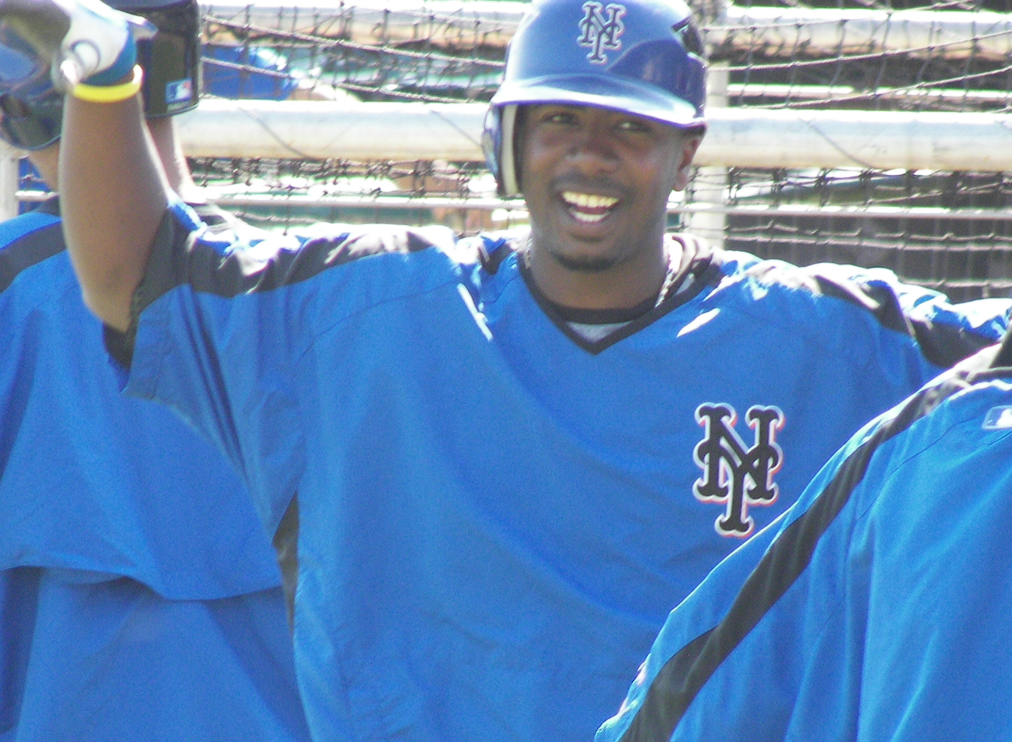 New York Mets infielder Rubén Gotay during a Mets/Detroit Tigers spring training game at Joker Marchant Stadium in Lakeland, Florida.